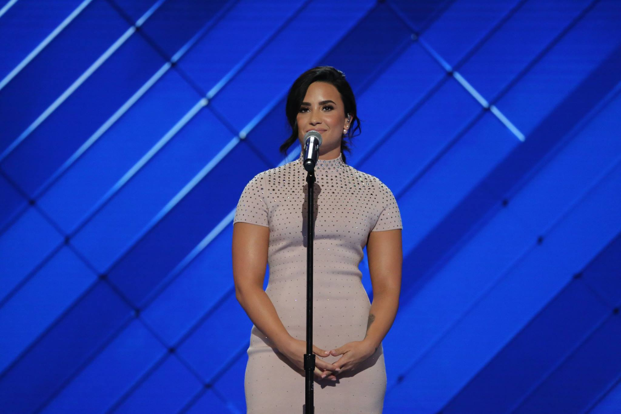 Singer Demi Lovato speaks during the first day of the Democratic National Convention in Philadelphia, July 25, 2016.